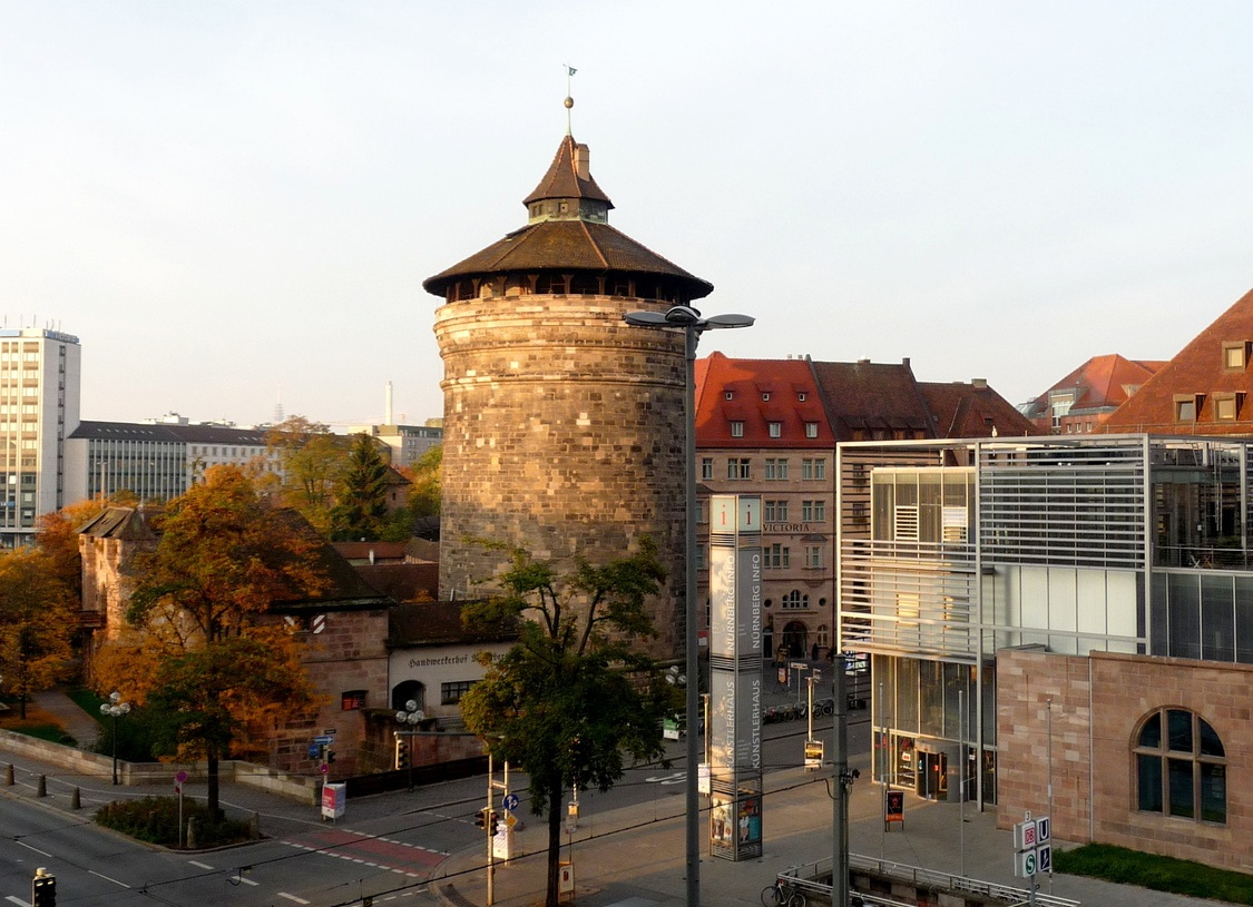 A corner of Nuremberg's old wall, near the train station.